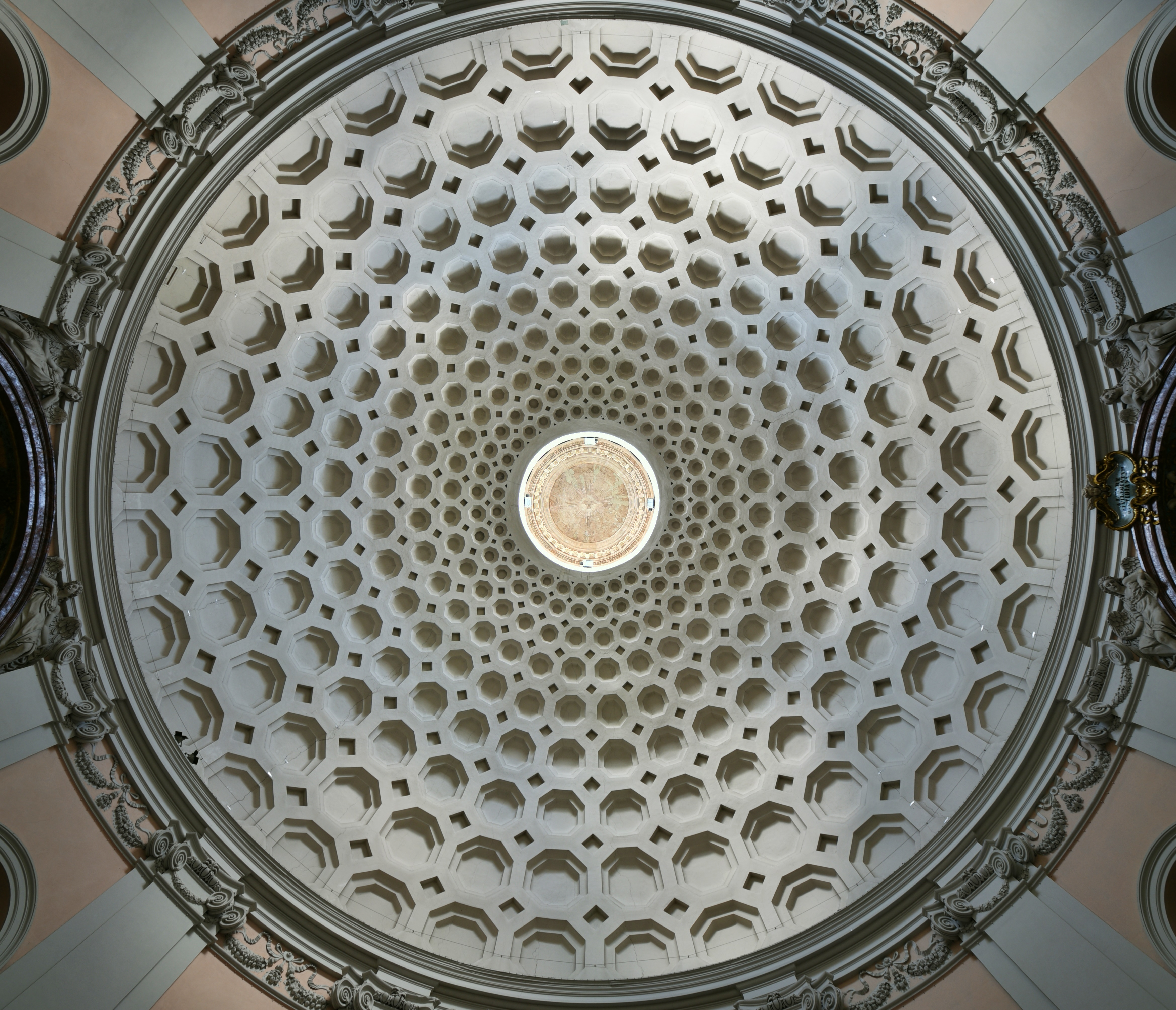 San Bernardo alle Terme (Roma) - Dome